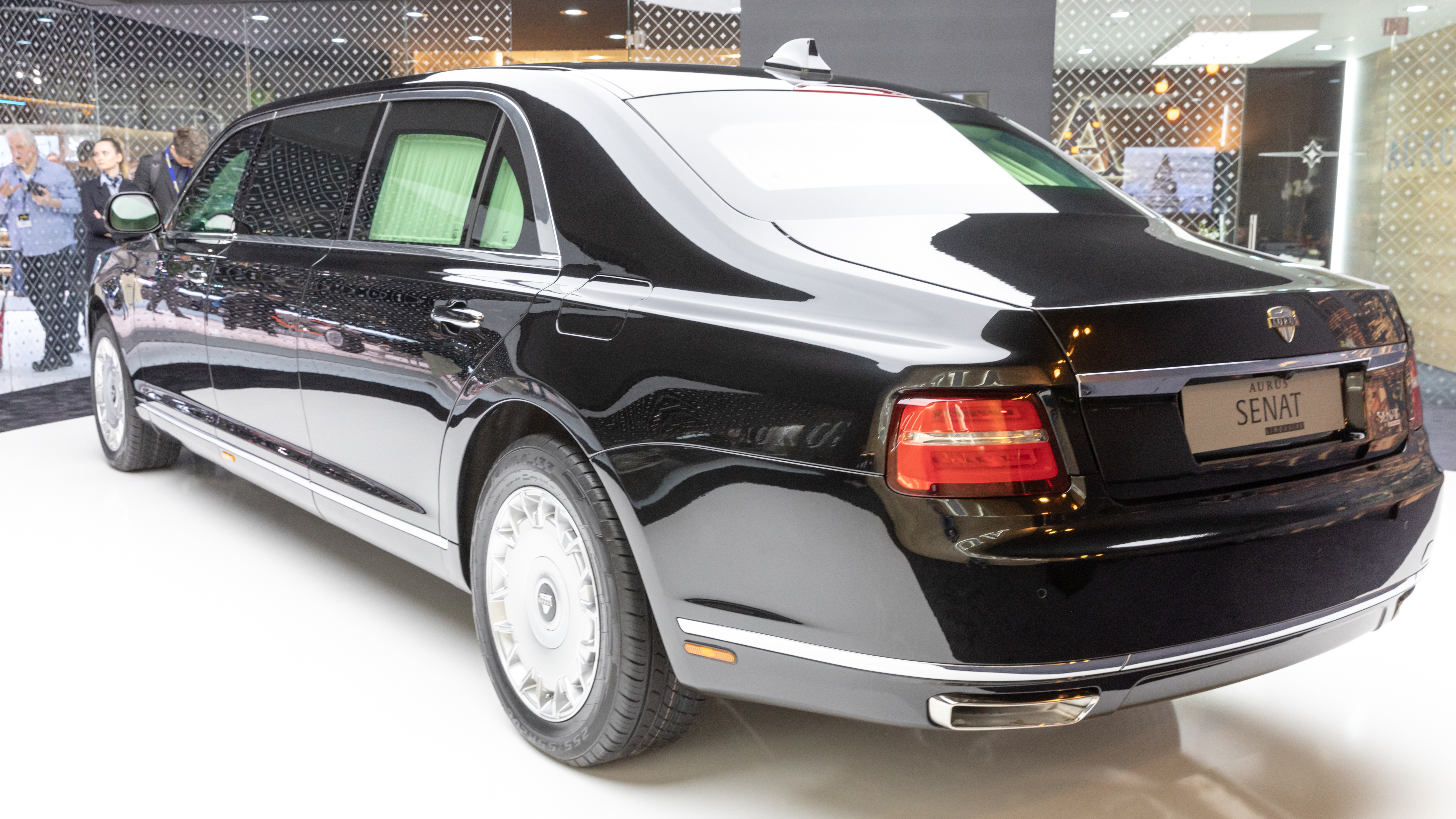 Aurus Senat at Geneva International Motor Show 2019, Le Grand-Saconnex